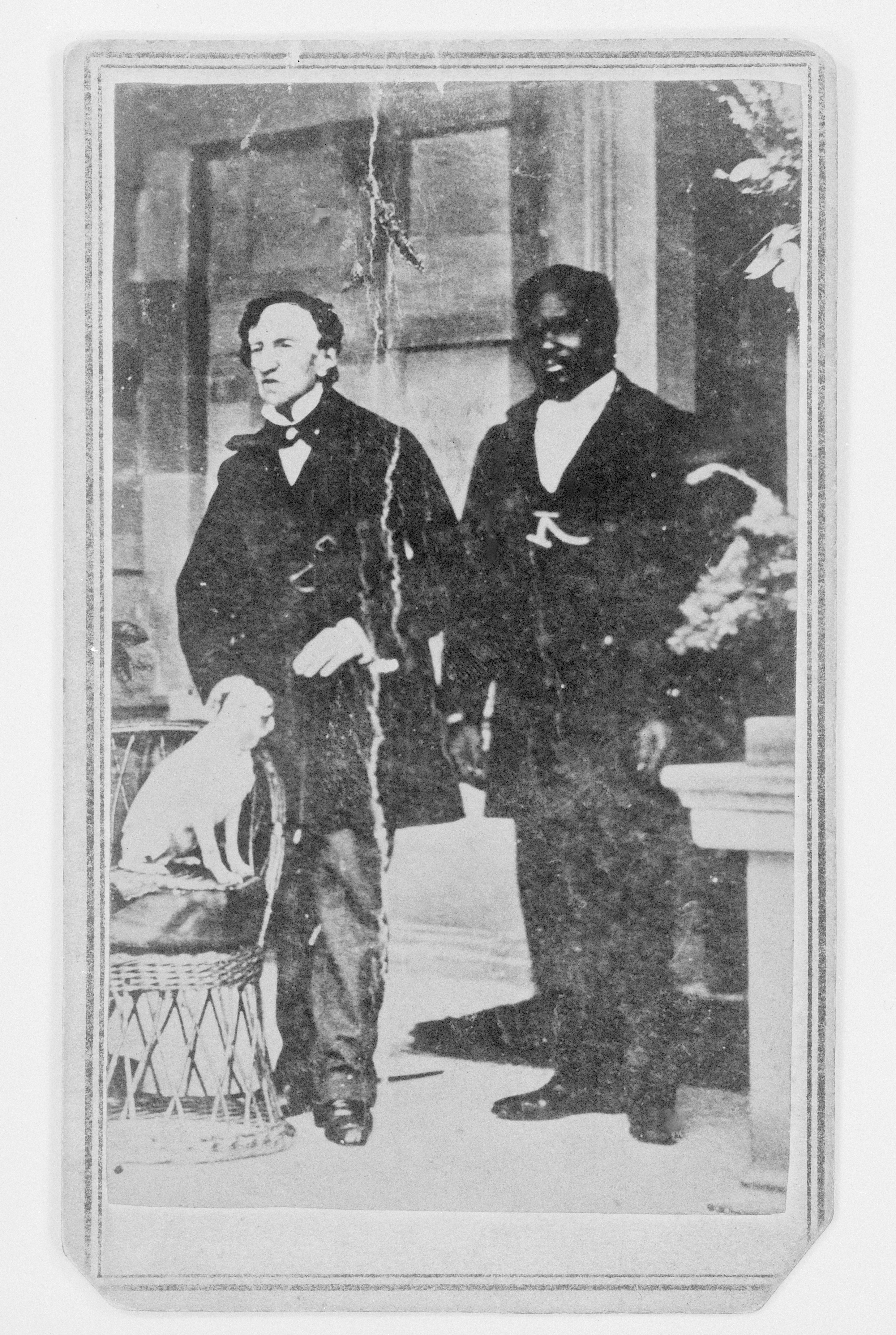 James Barry, with his dog, Psyche, and his servant Black John. Kingston, Jamaica Archives & Manuscripts Keywords: James Miranda Barry; Duperly Bros.